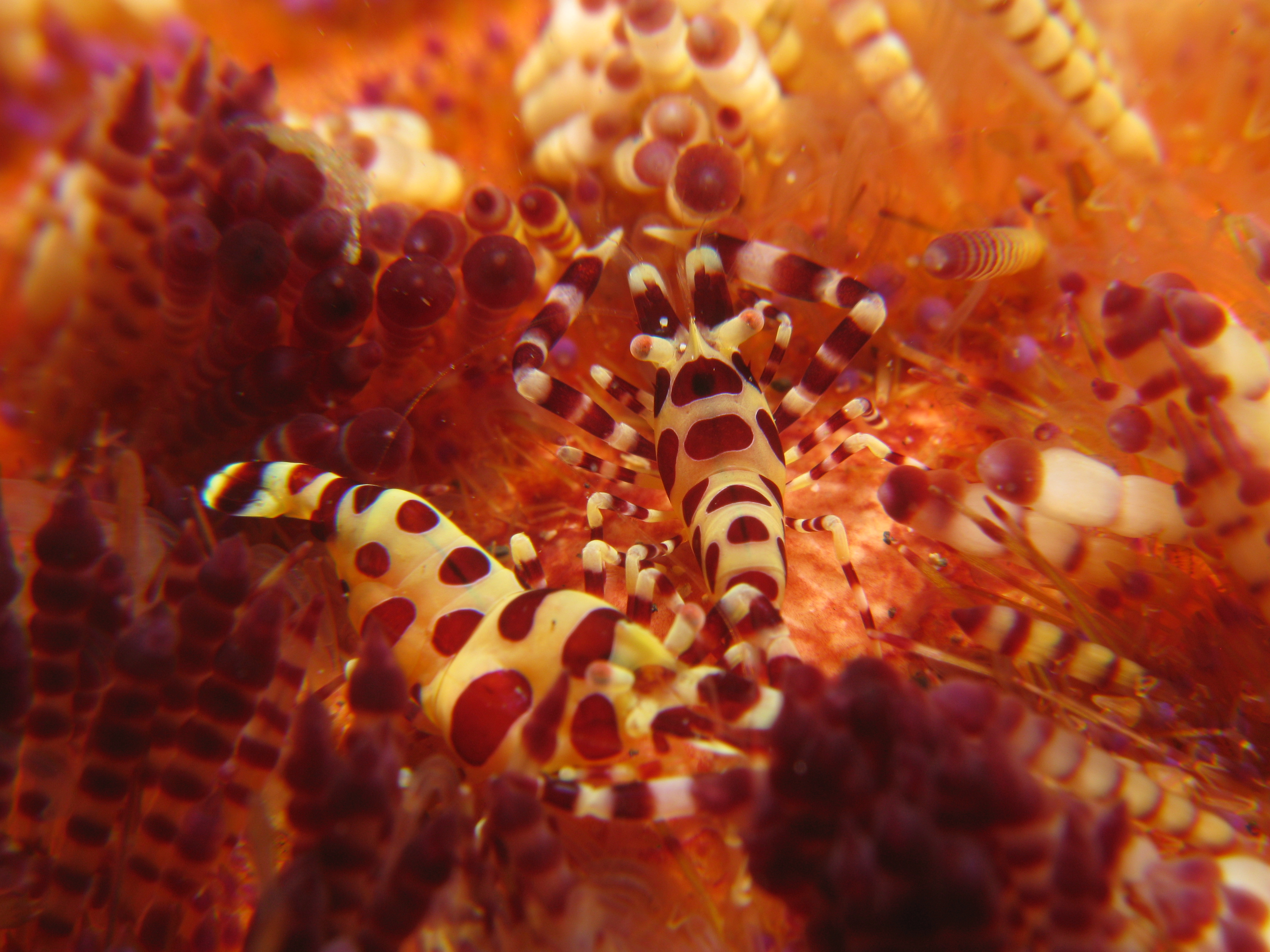 Symbiotic shrimps (Periclimenes colemani) on a fire urchin (Asthenosoma varium) at Bitung (Sulawesi, Indonesia).